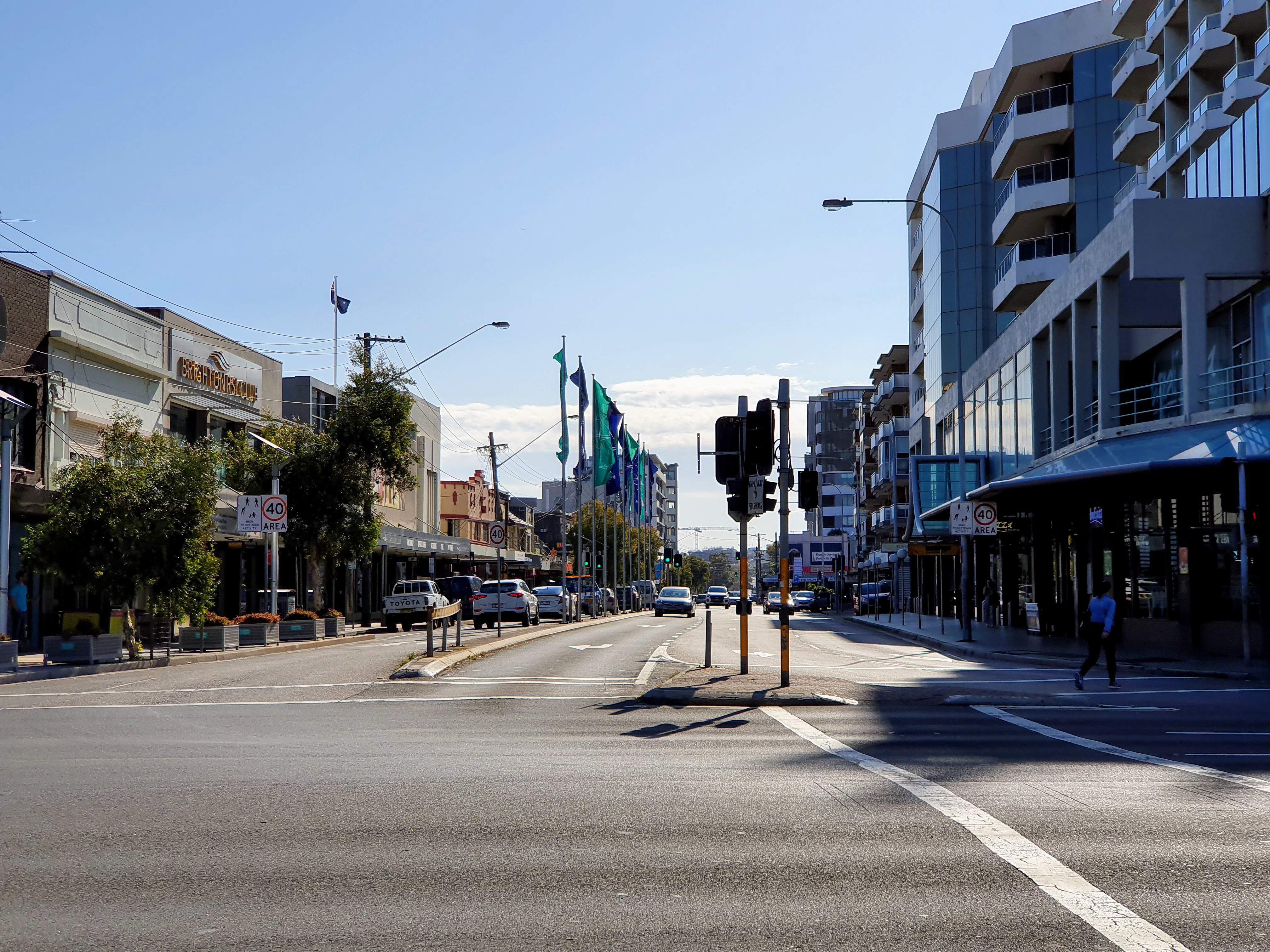 bay street shops and apartments in Brighton-Le-Sands